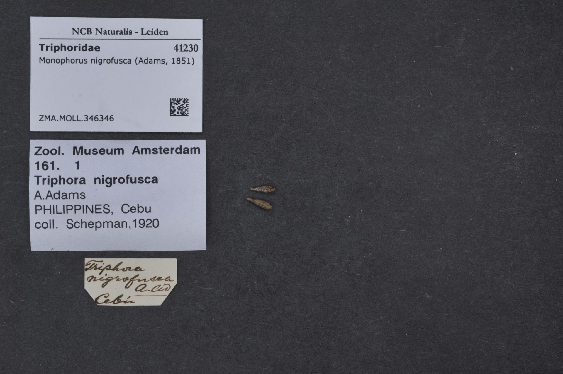 Monophorus nigrofusca (Adams, 1851)